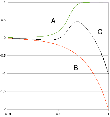 Hormesis effect (C) created by the superposition of a threshold positive response (A) and a linear negative response (B)